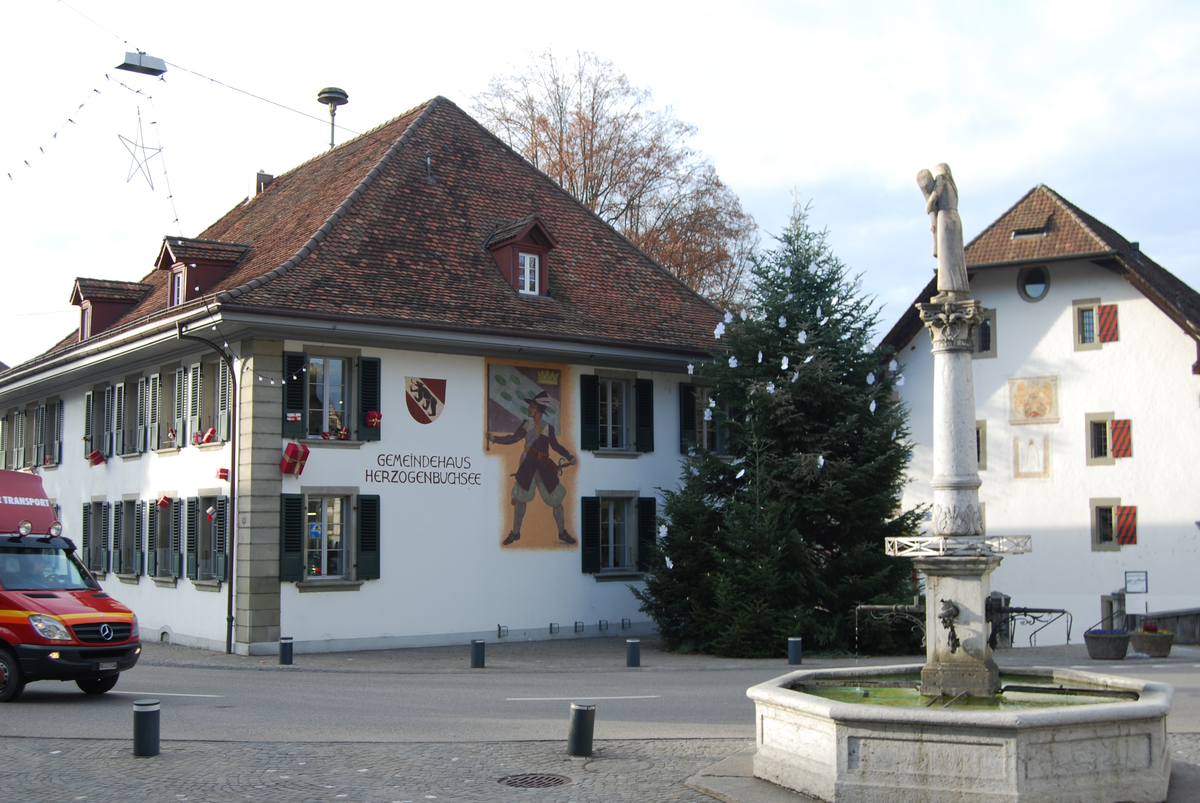 Municipal administration of Herzogenbuchsee, canton of Bern, Switzerland